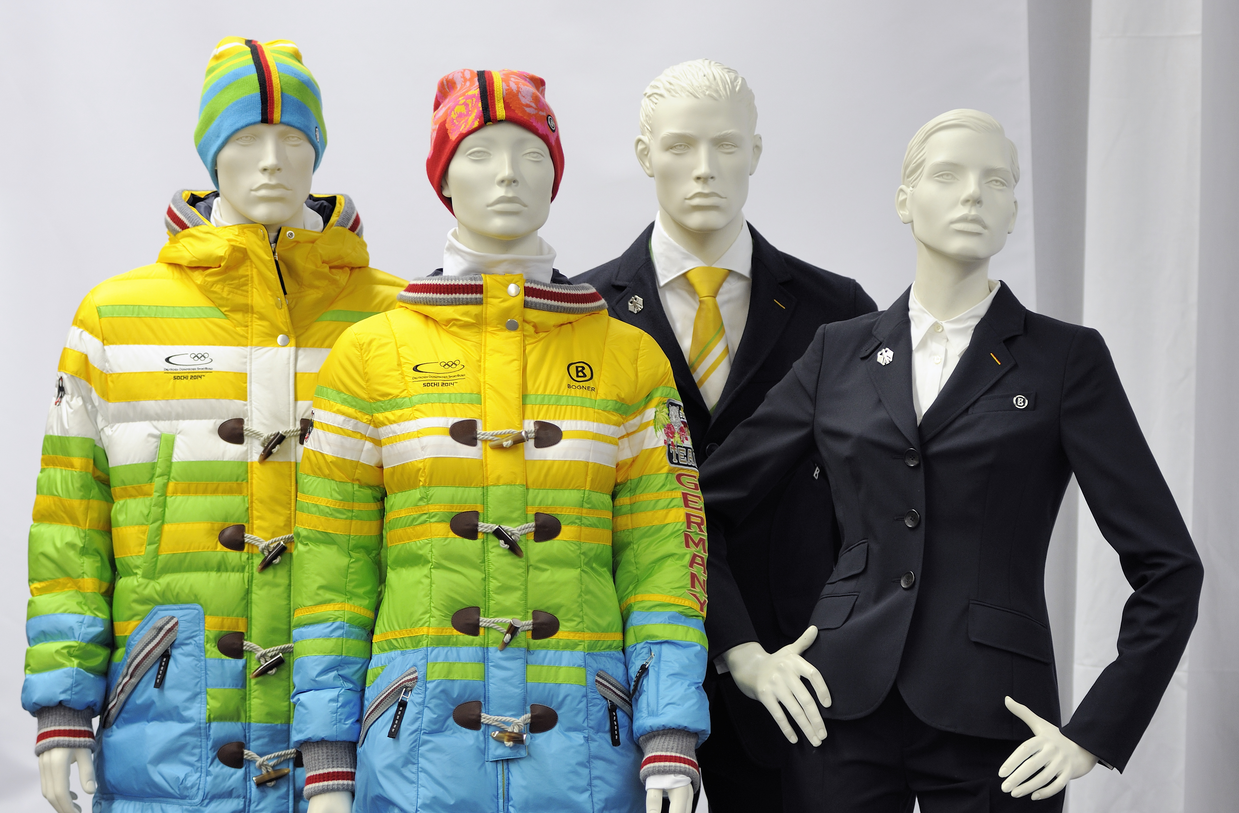 Picture taken in Erding during the investiture of the 2014 German olympic team (project). Offical cloths.